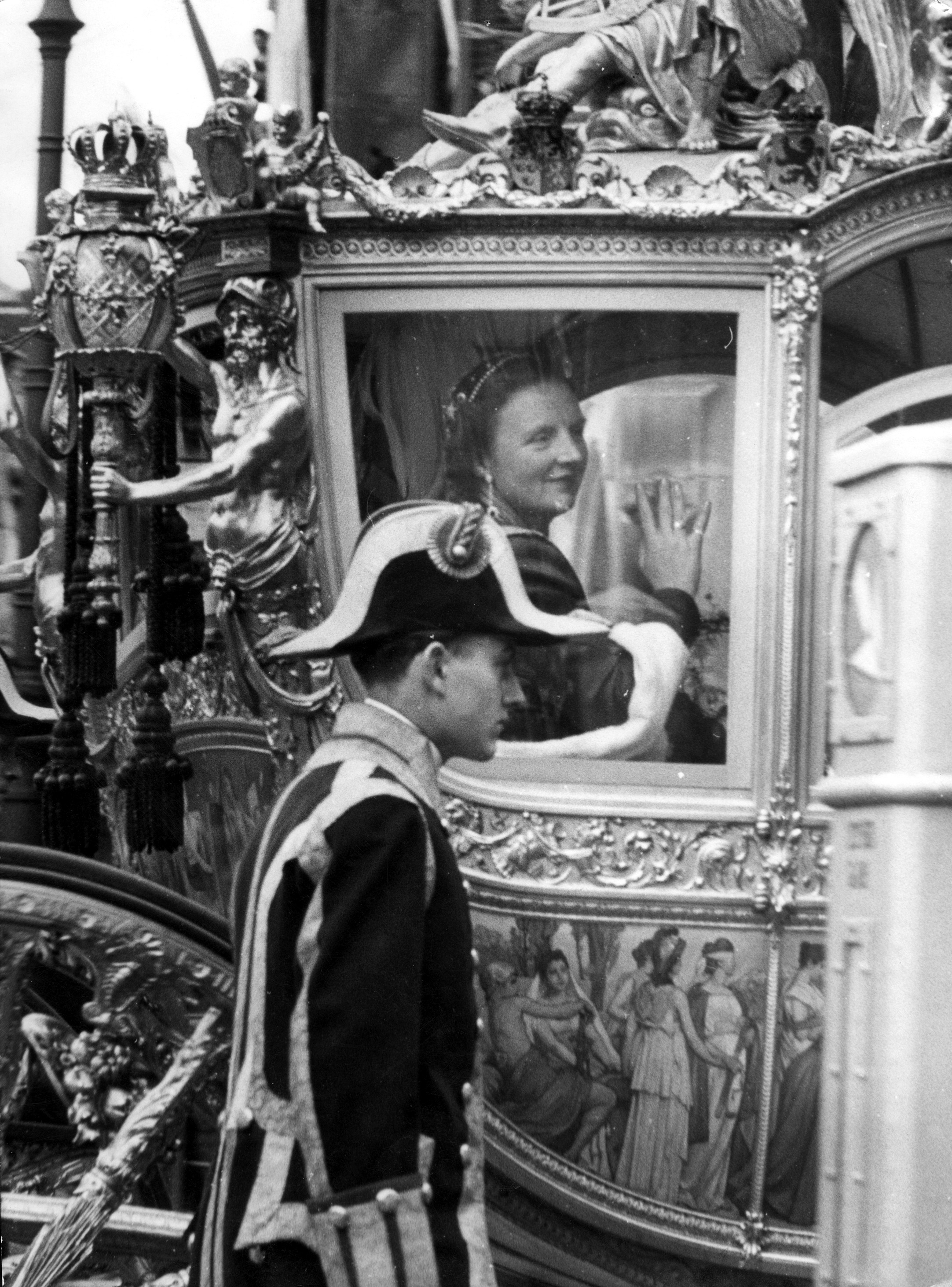 After her inauguration in the New Church queen Juliana is driven through Amsterdam in the Golden Coach. Amsterdam, The Netherlands, 6 September 1948.